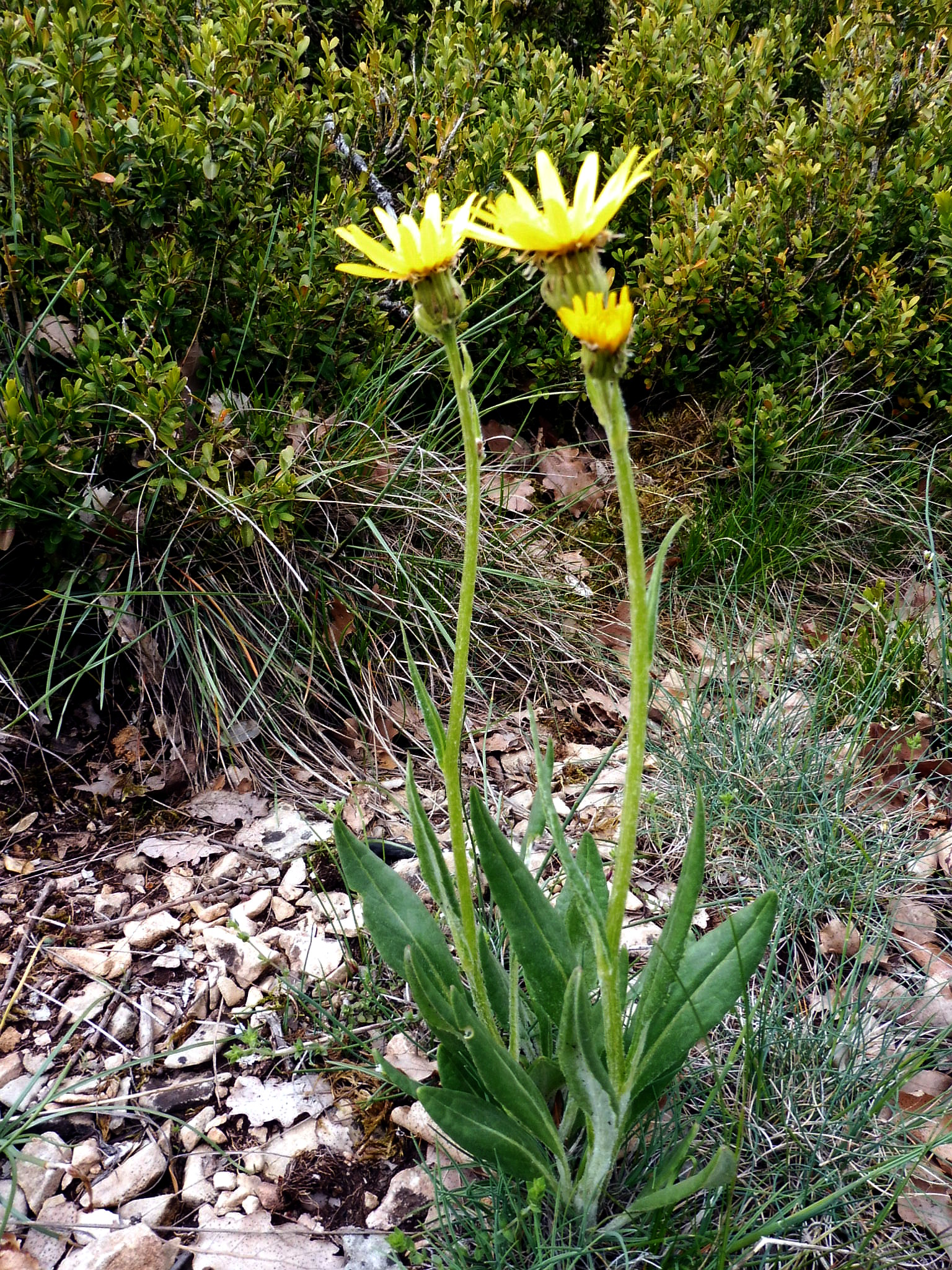 Senecio doronicum. In Montsec de Rúbies (Noguera - Catalunya. To 1.380 m altitude This is a a photo of a natural area in Catalonia, Spain, with id: ES510192